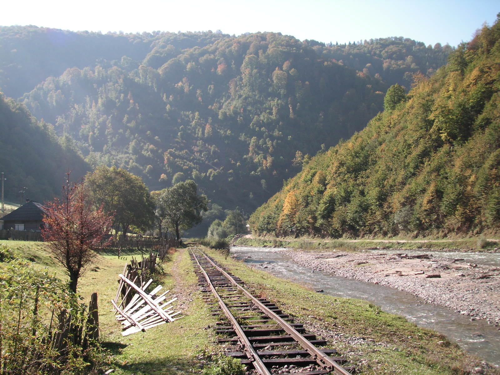 Valea Vaserului with Wassertalbahn rail tracks